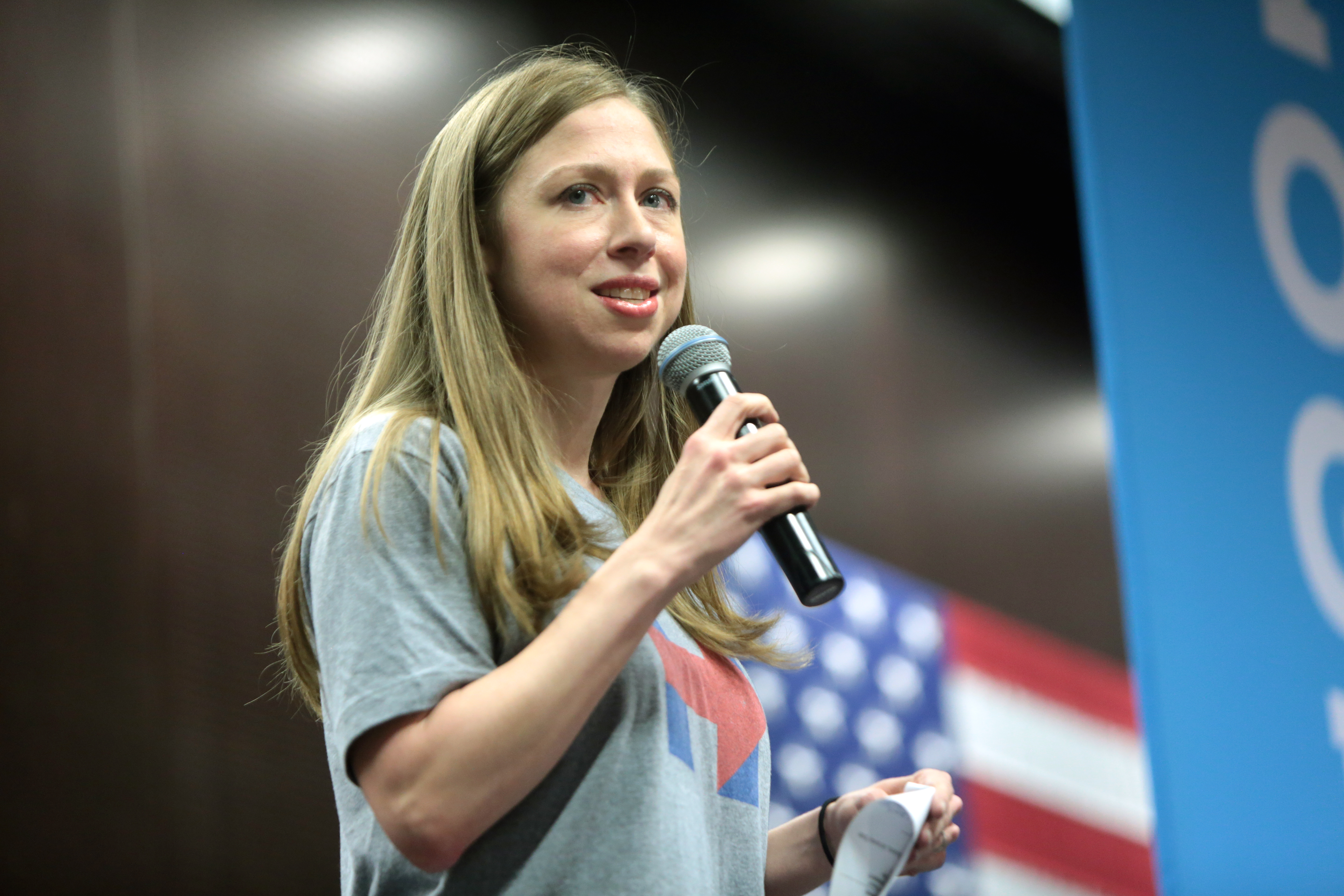 Chelsea Clinton speaking at a campaign rally in Tempe, Arizona.